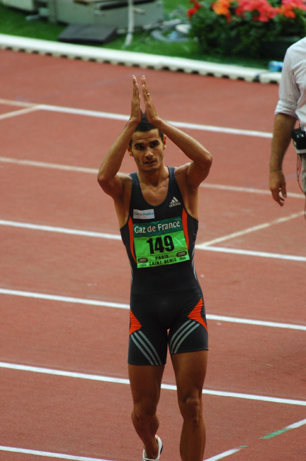 Mehdi Baala au meeting Gaz de France 2006